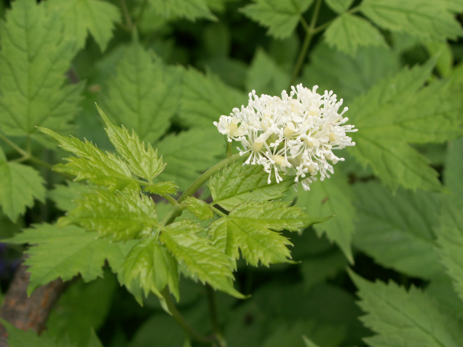 Actaea spicata - flower